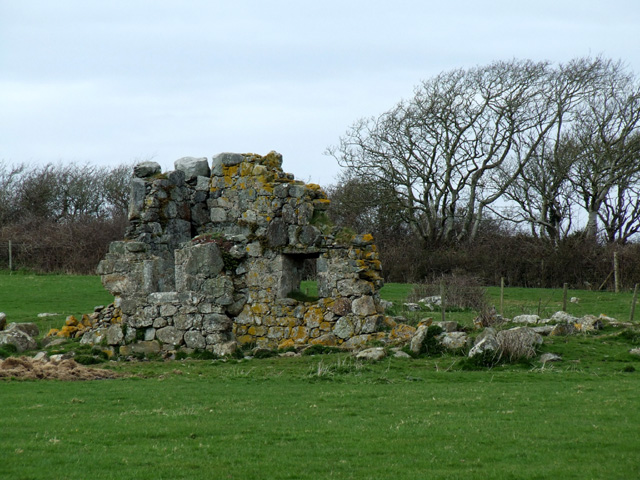 Bodychen ruins Ruin at Bodychen